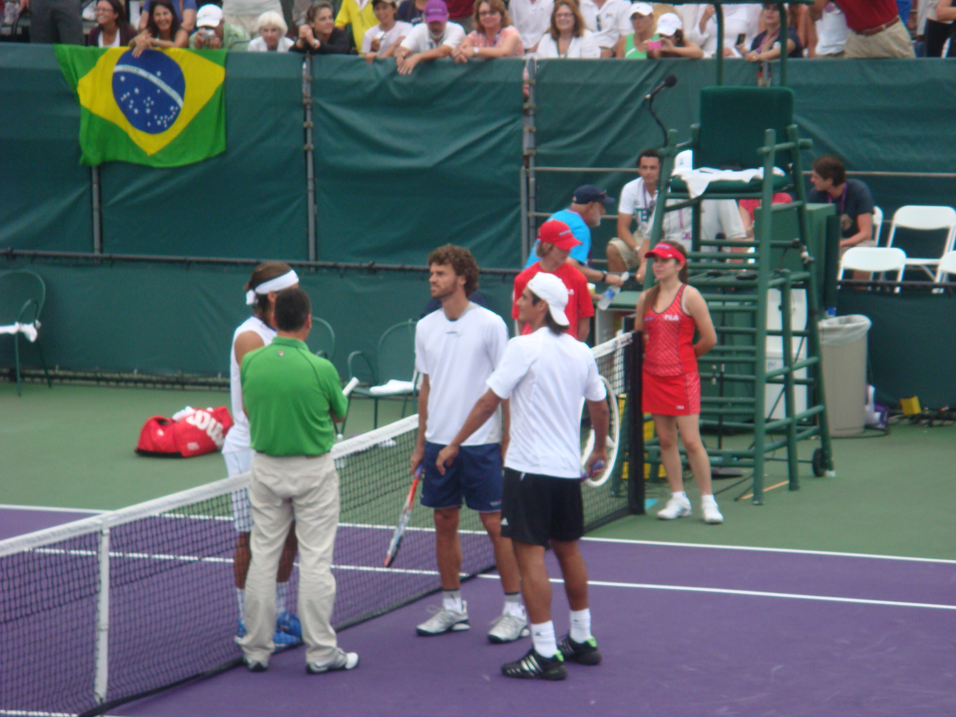 Kuerten and Lapentti in a double matcg (against Lopez and Verdasco) @ Miami, March, 2008